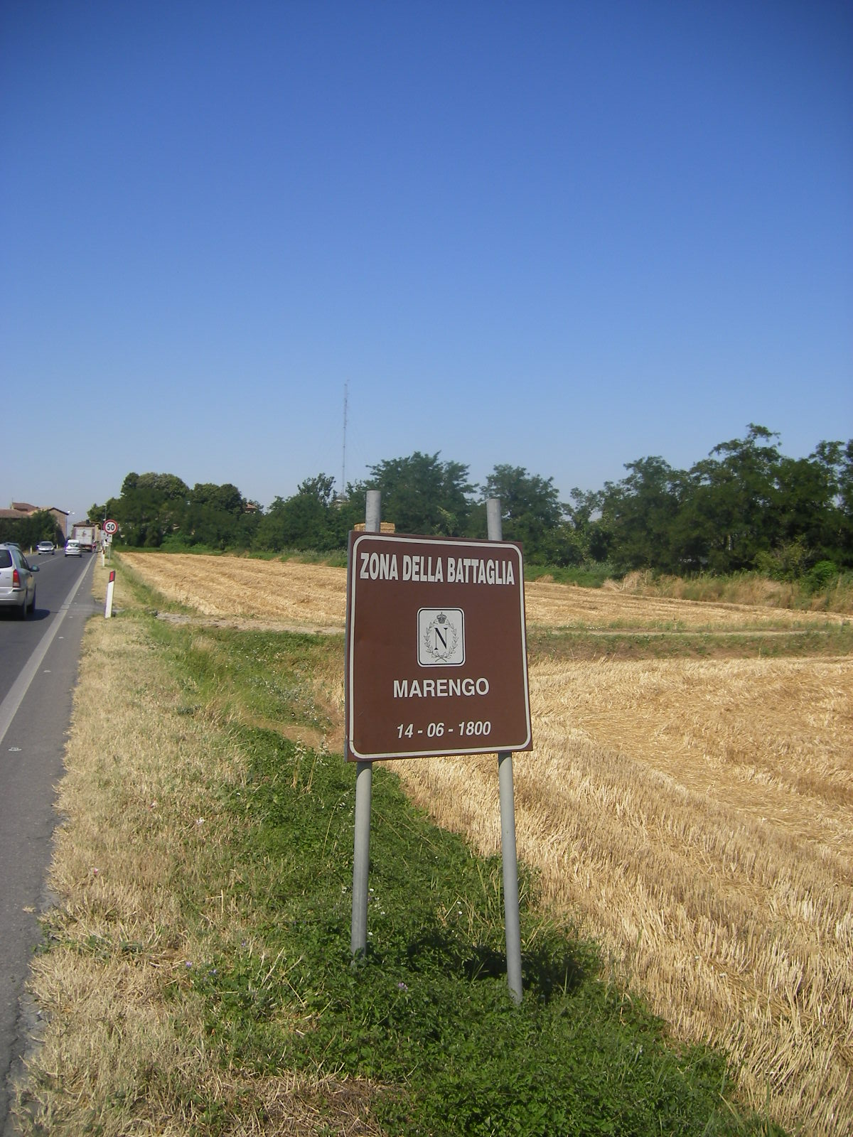 Sign at eastern border of the Marengo Battle Zone, between Tortona and Torre Garófoli (comune Tortona)